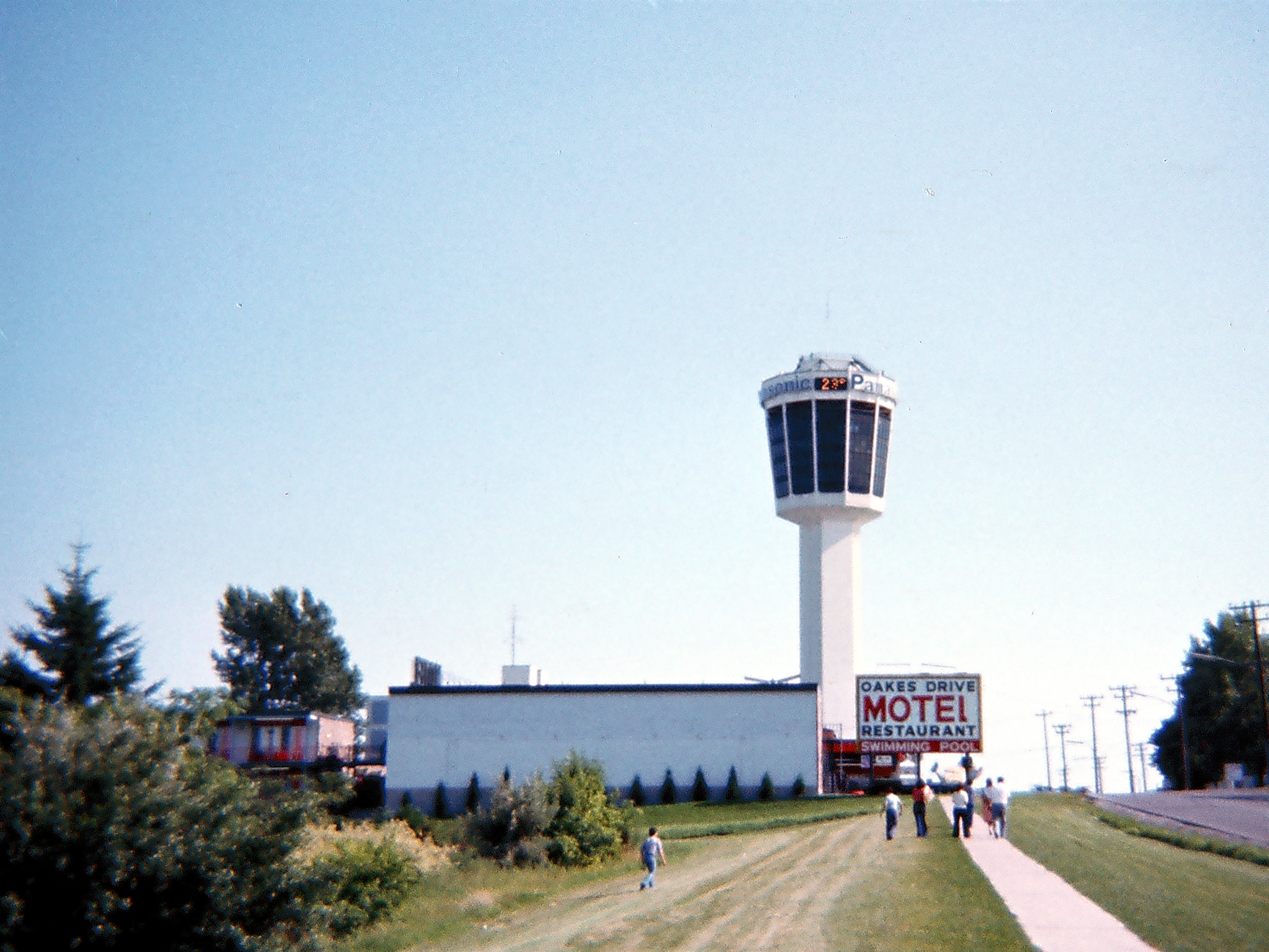 Panasonic Tower at Niagara Falls.